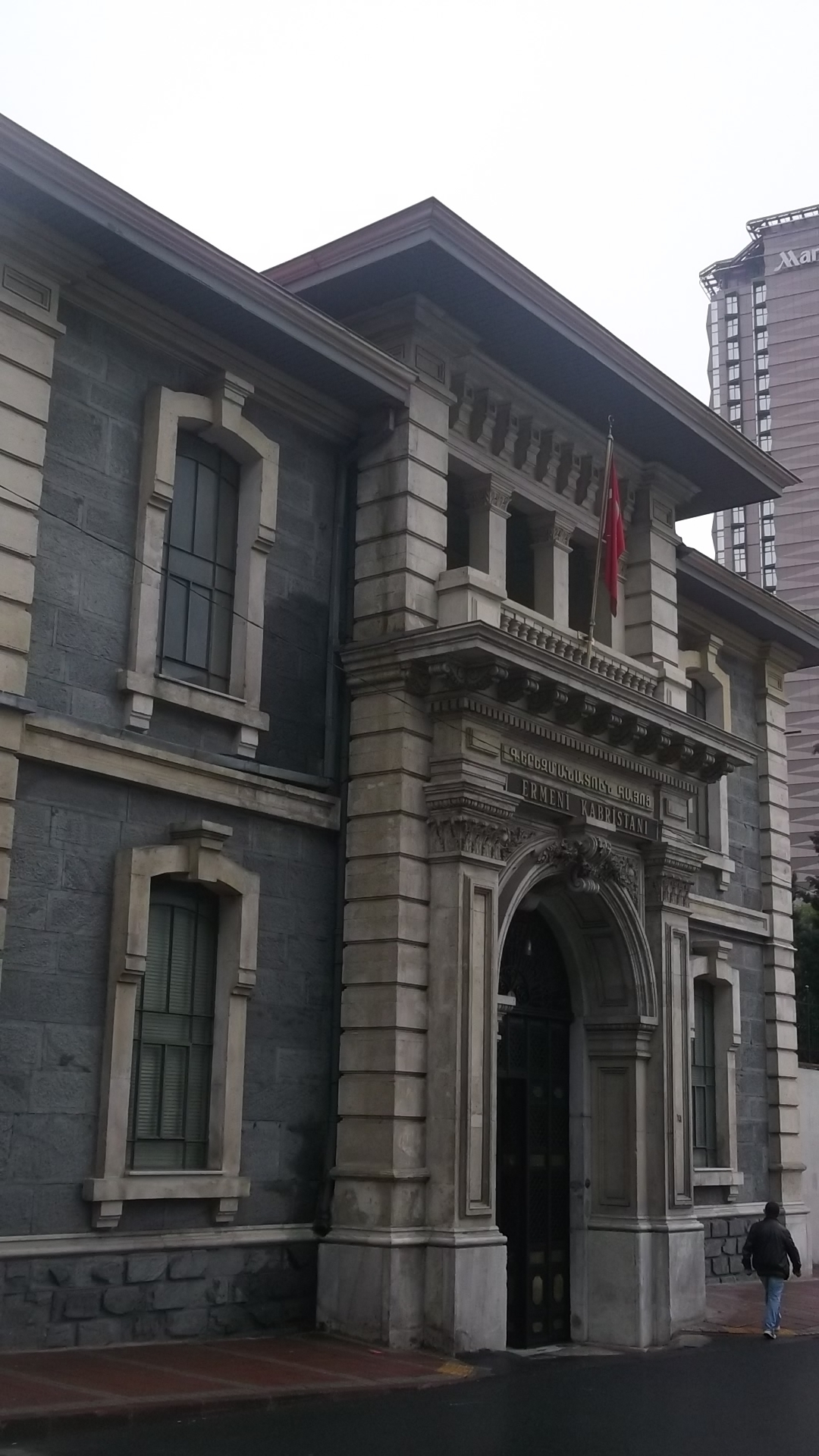 The main gate of Şişli Armenian Cemetery.